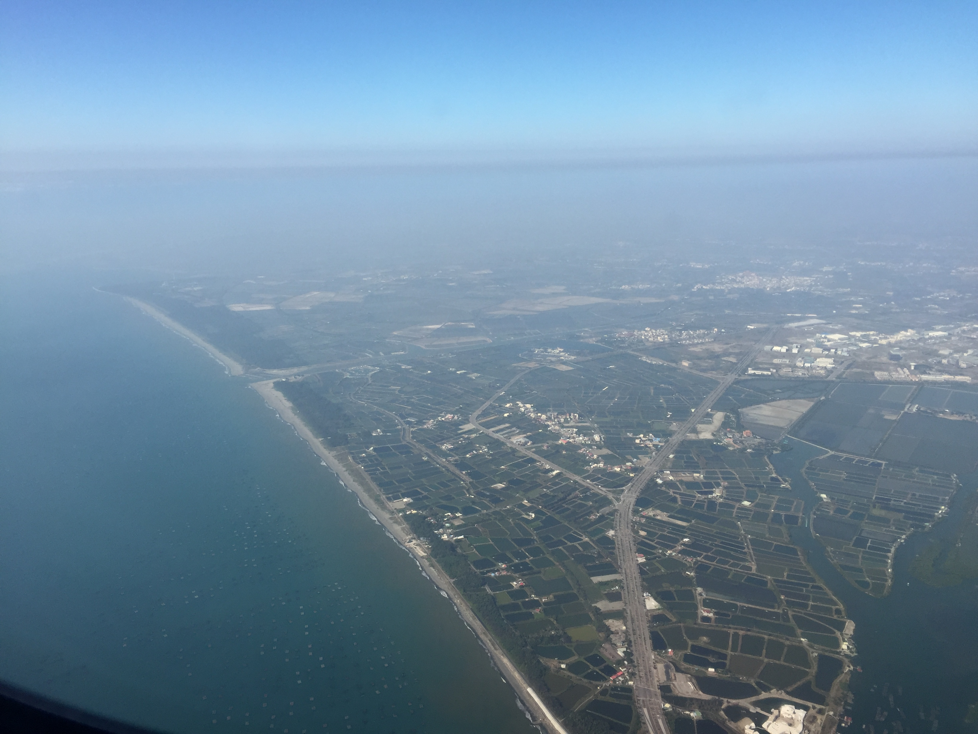 View of Taijiang National Park, Tainan, Taiwan from the airplane window